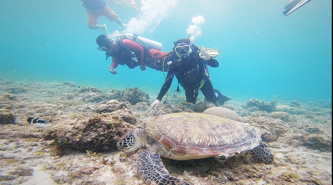 Turtle dive at Moalboal